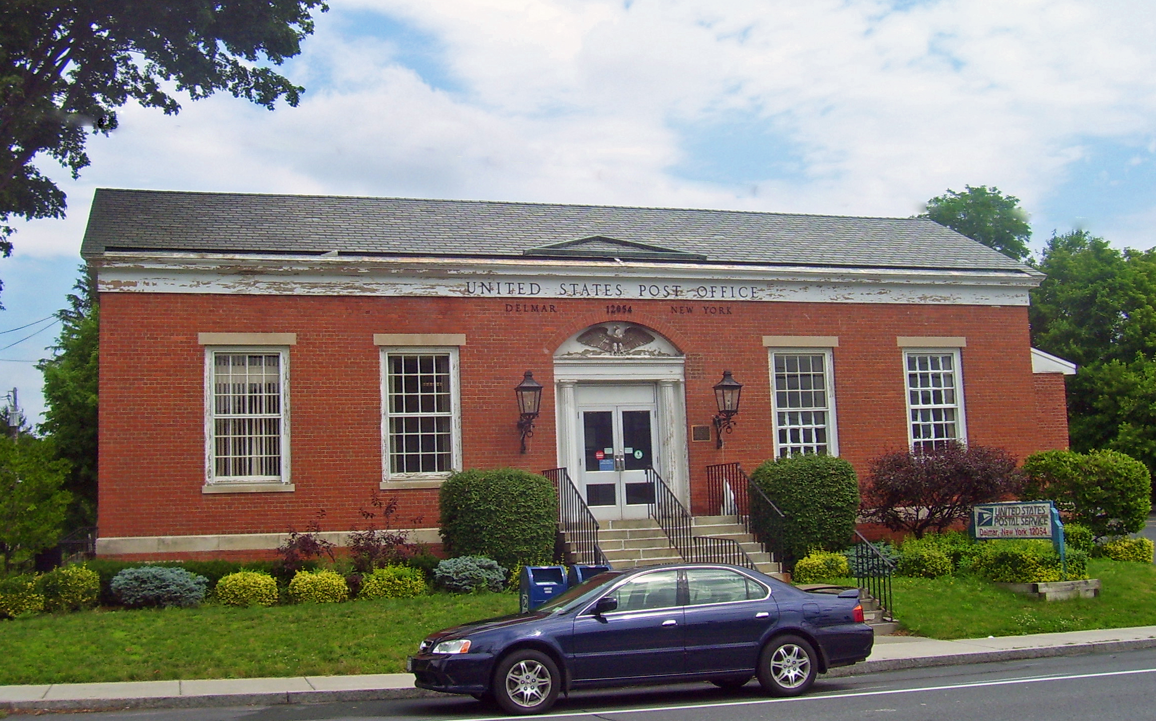 Delmar Post office — in Delmar, near Bethlehem, in Albany County, New York. 1940 building by the WPA—Works Progress Administration. On the National Register of Historic Places in Albany County, New York.